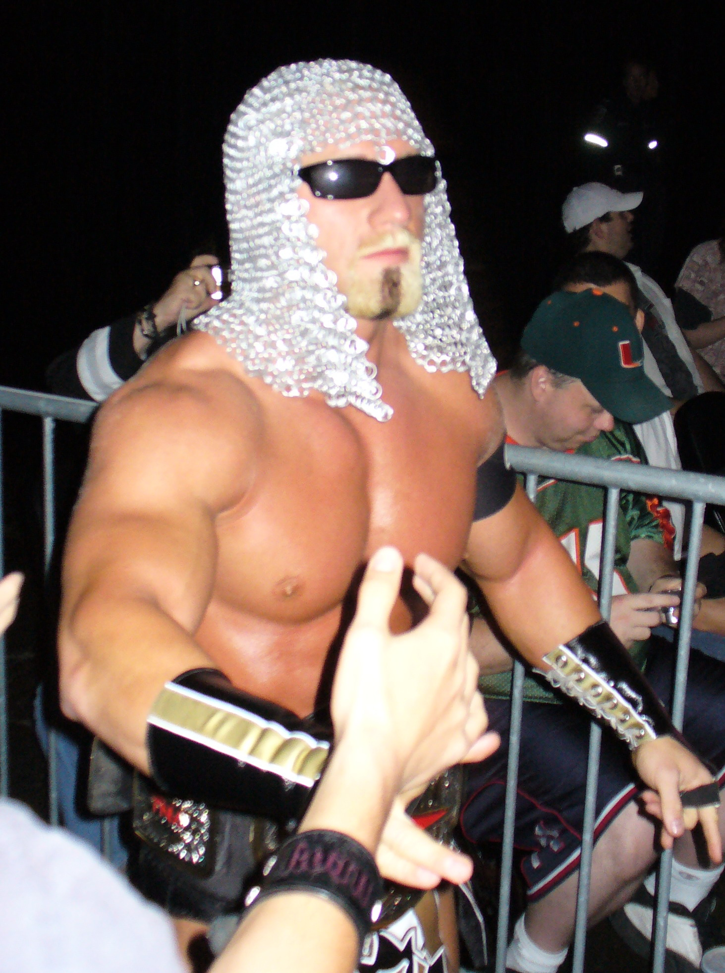 Professional wrestler Petey Williams